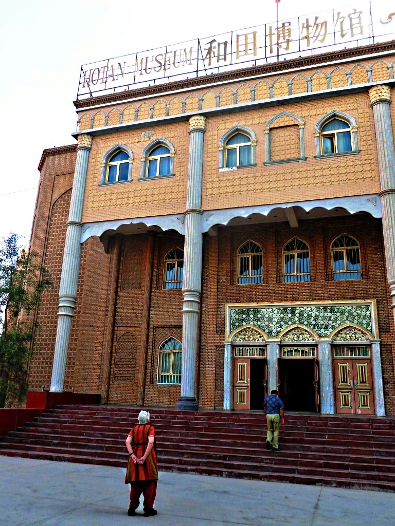 This photo shoes the entrance to the Hotan Cultural Museum